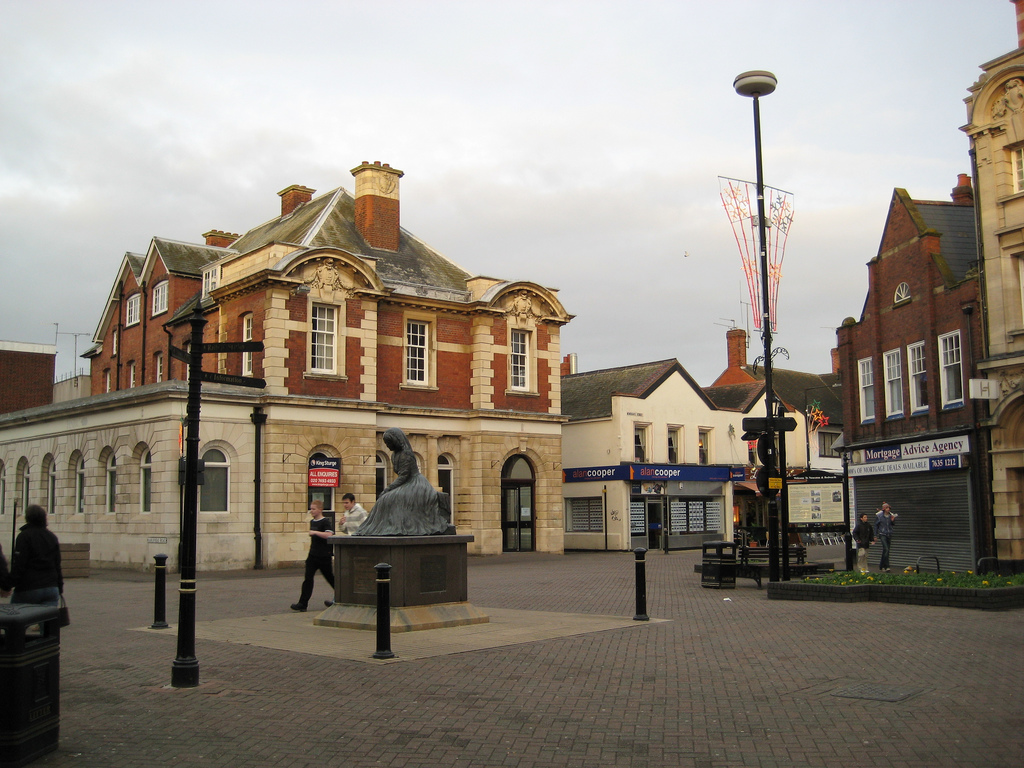 Statue in Nuneaton, Warwickshire of the 19th-century writer George Eliot (1819–80; real name Mary Ann Evans). She was born at South Farm on the Arbury estate, southwest of the town. The statue is in a part of Newdegate Street informally called Newdegate Square. In the background is the former Midland Bank building, built in 1898.